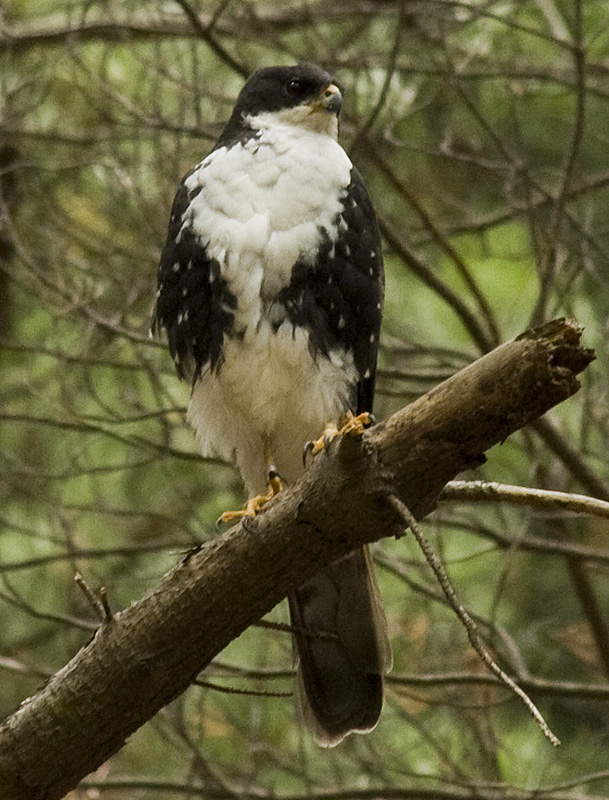 Black Sparrowhawk, white morph adult.